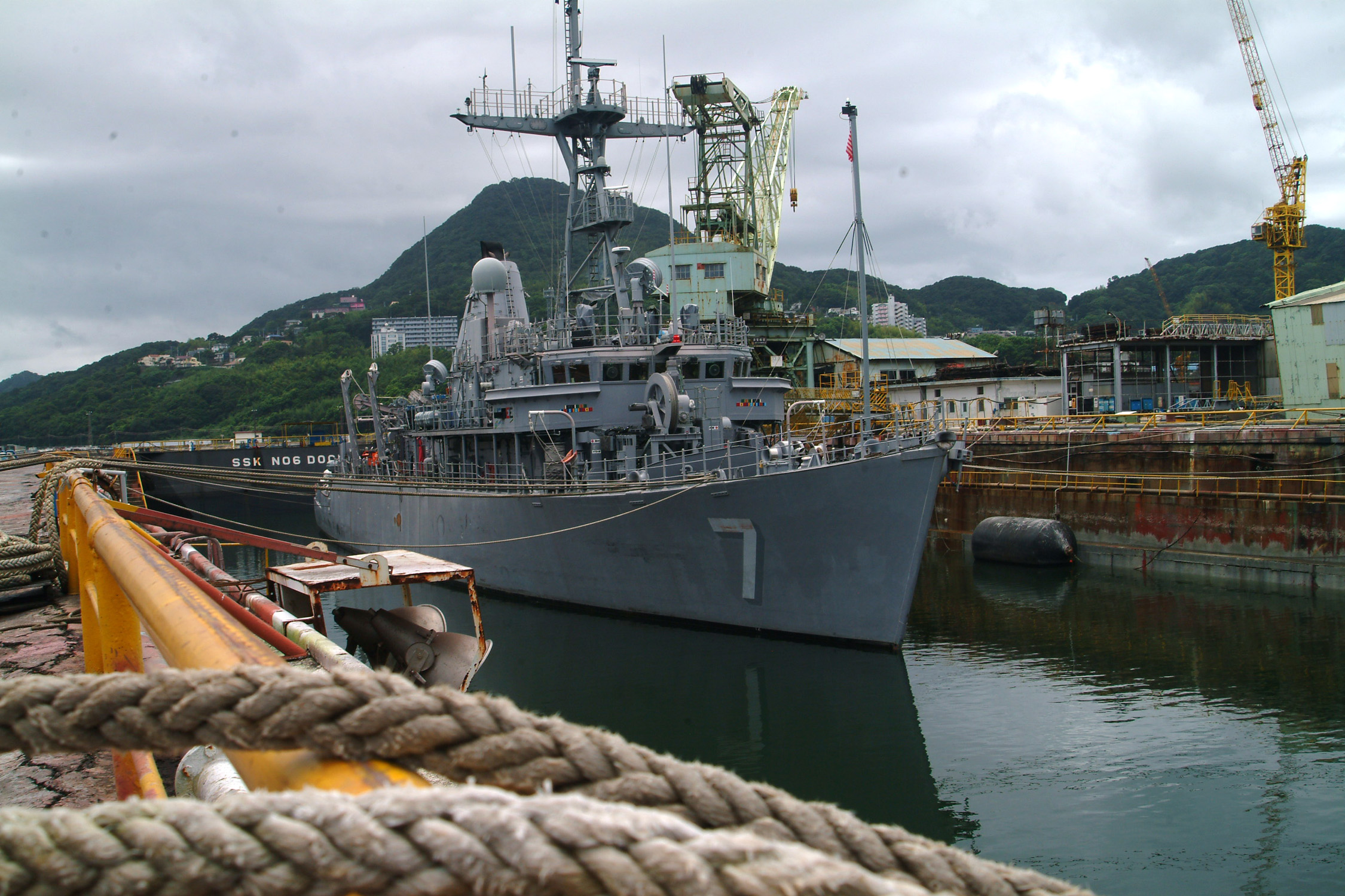 060916-N-4124C-004 - Sasebo, Japan (Sept. 16, 2006) – USS Patriot (MCM 7) sits in a wet berth at Ship’s Repair Facility (SRF) in Sasebo, Japan. Patriot and other ships under Commander, Task Force (CTF) 76 took measures to avoid damage from the incoming Typhoon Shanshan. Patriot went to the wet berth because it is undergoing a ship’s restricted availability (SRA) period while the other ships sortied out of the area.